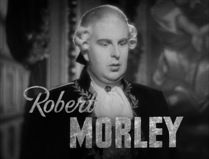 Cropped screenshot of Robert Morley from the trailer for the film Marie Antoinette